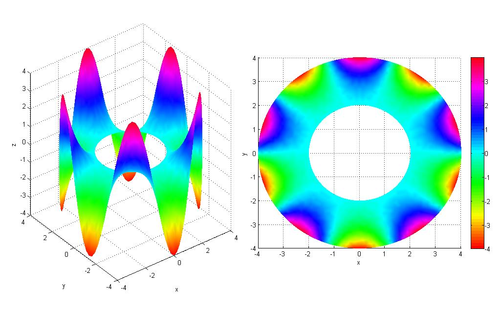 Laplace's Equation on an annulus (r=2 and R=4). The Boundary Conditions are u(r=2)=0 and u(r=4)=4*sin(5*θ)